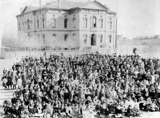 An early photo of the second campus of the California State Normal School in downtown Los Angeles. The school opened in 1882 as a branch of the original campus in San Jose, and in 1914 moved to second location on the 800 block of Vermont Avenue. In 1919 it became the University of California, Southern Branch and, after moving to its present location in 1925, it would be renamed the University of California at Los Angeles in 1927 and present University of California in 1958. The location in this photo would become the site of the iconic Los Angeles Central Library, built in 1926. Given the above, this photo was taken at the Vermont Avenue location, sometime between 1882 and 1914 and before 1923 for copyright purposes.